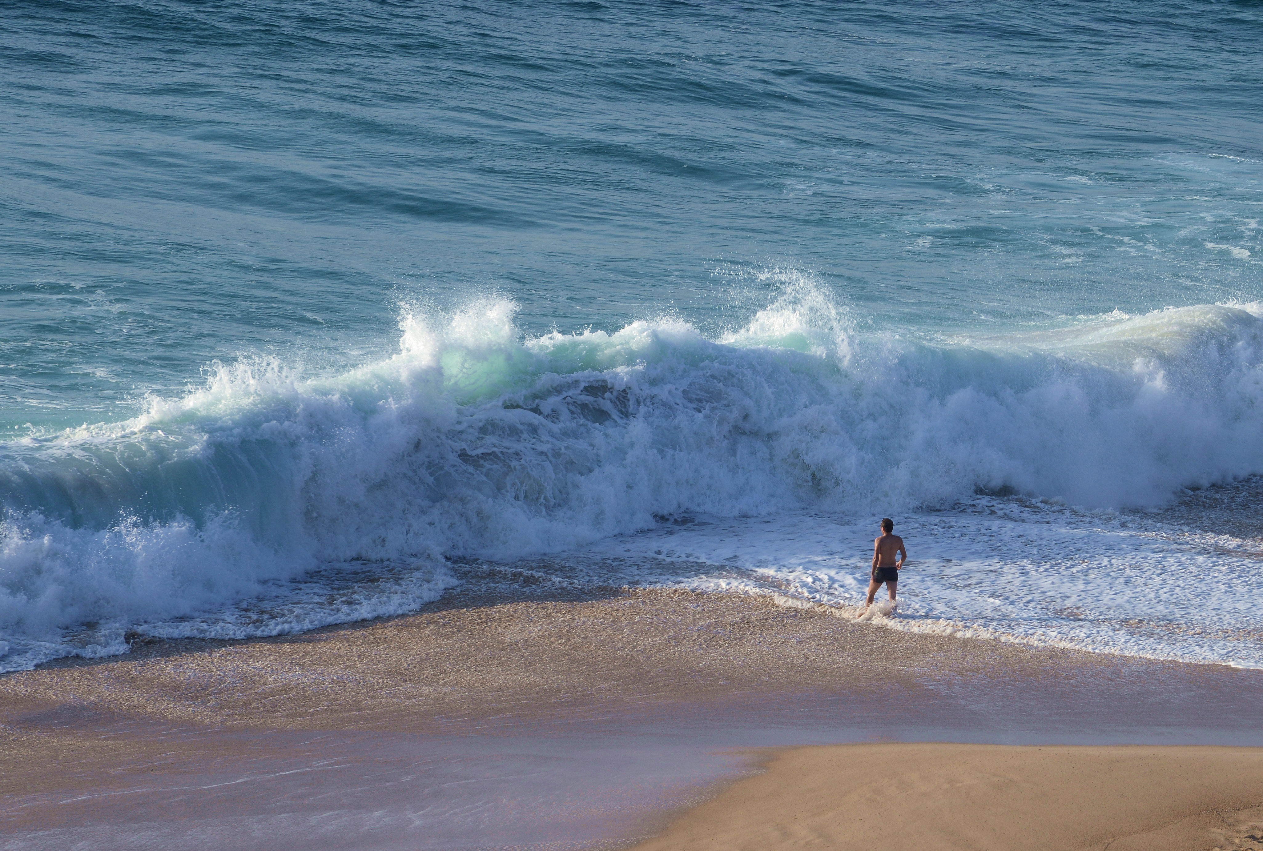 Breaking wave in Porto Covo, Portugal